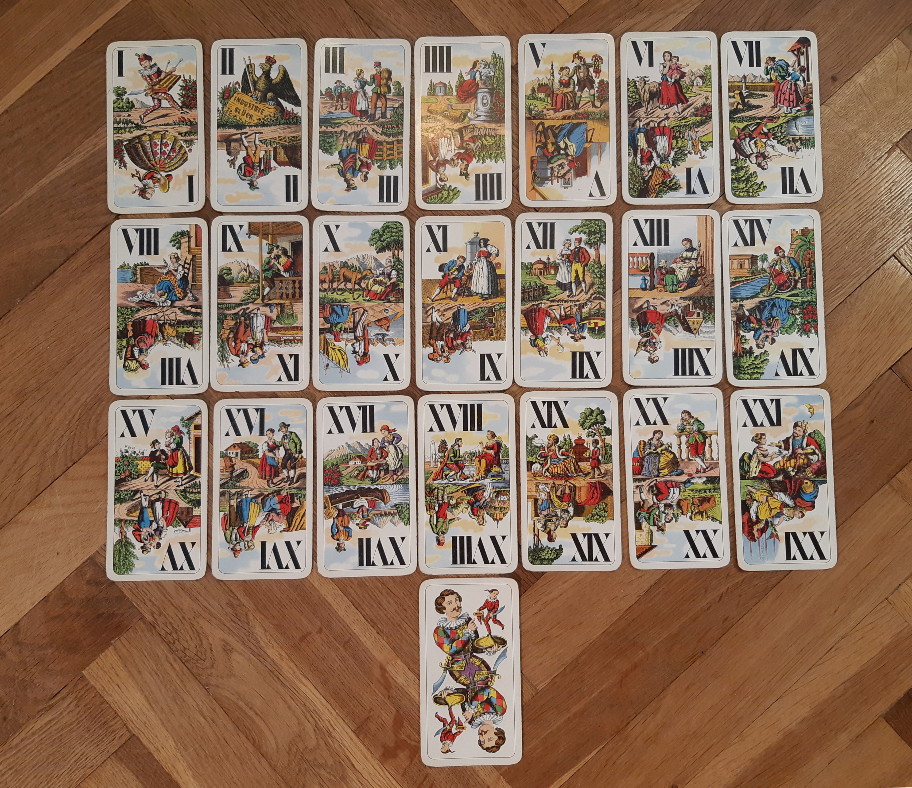 Tarock cards - tarocks